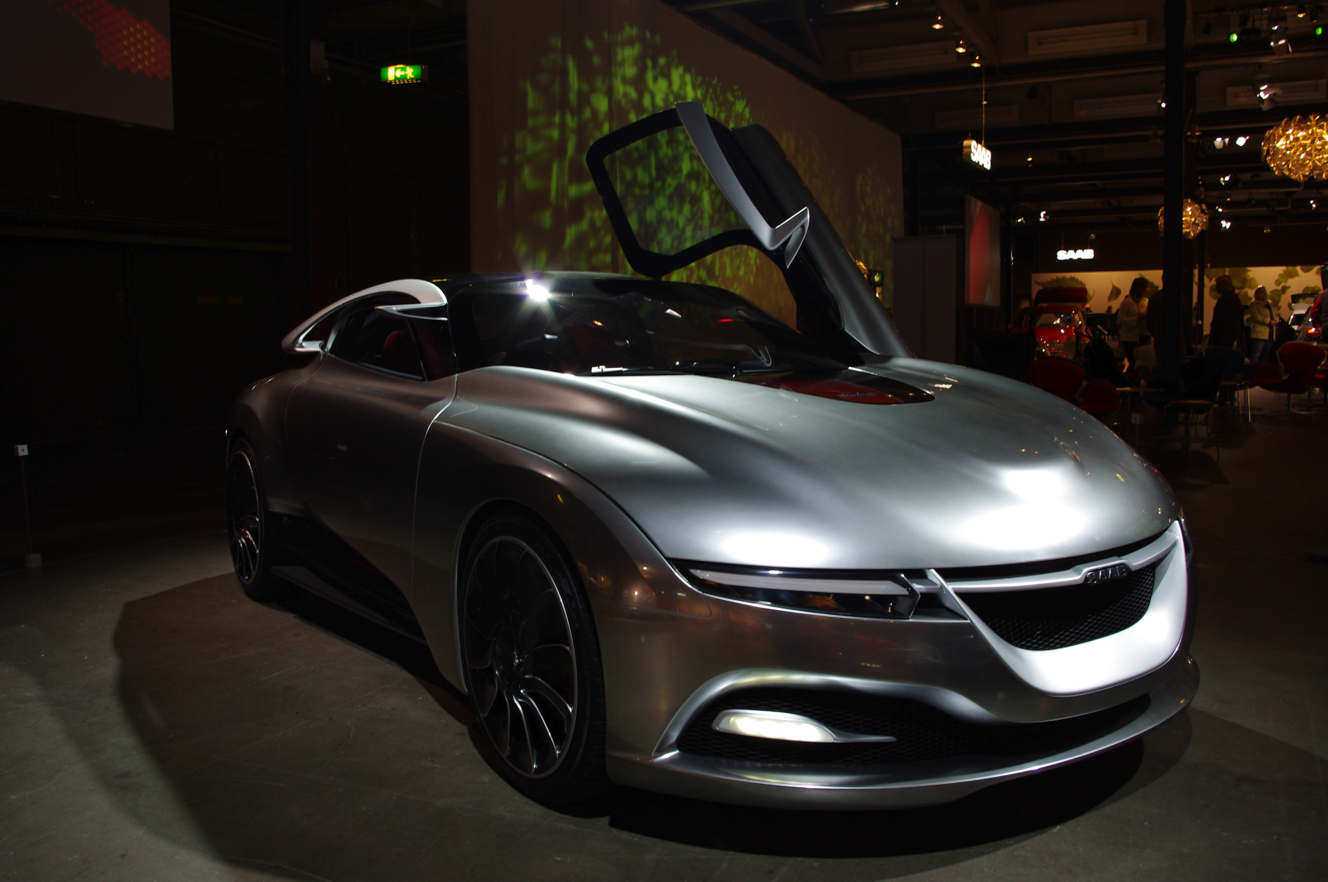 Saab Phoenix at the Vårsalong 2011.